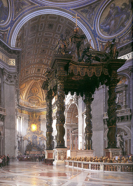 Baldacchino and Choir of St. Peter's Basilica